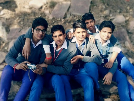 Farhan khan With His Friends At Bal Vidyalaya's Camps.